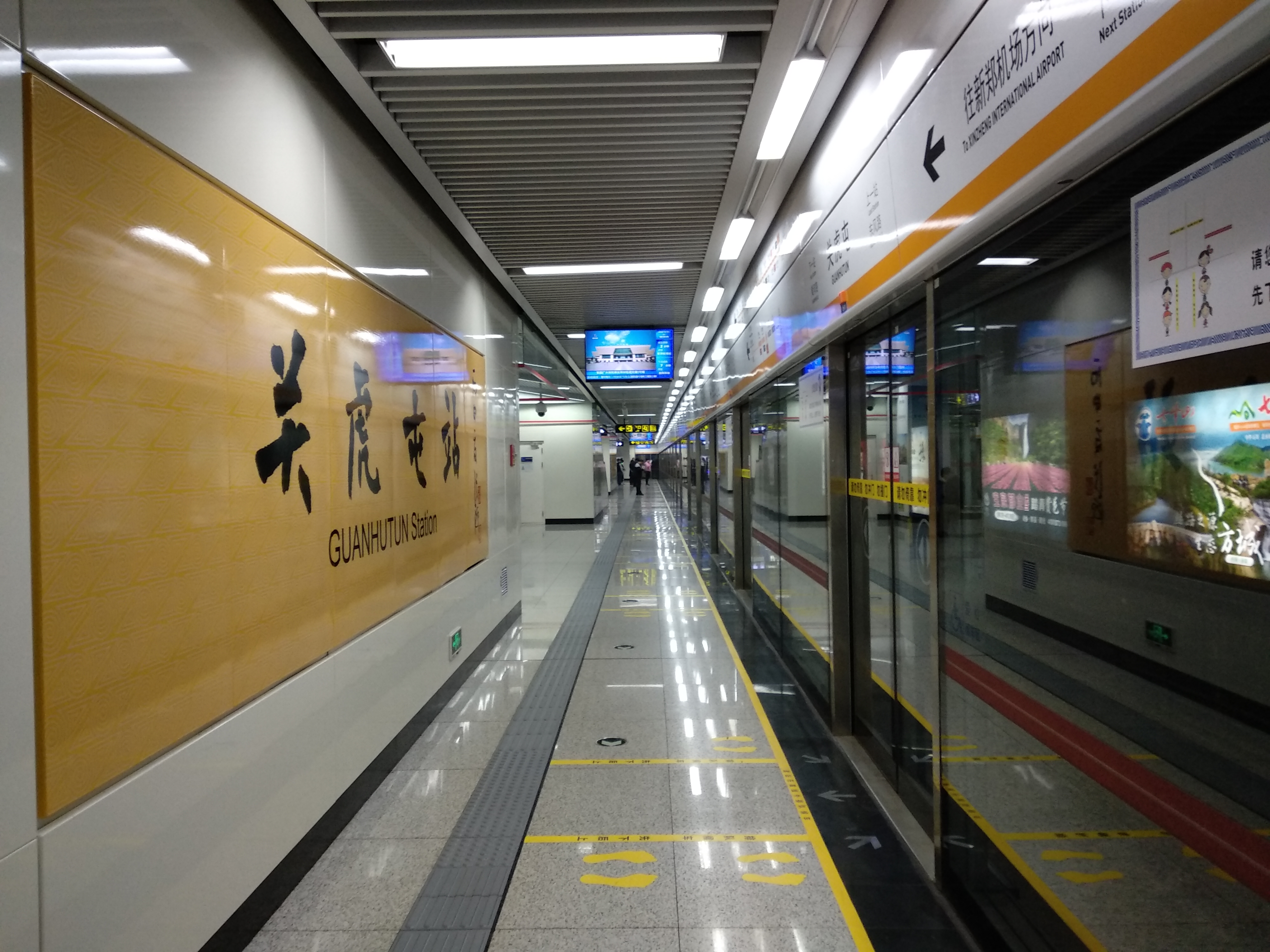 Located in Jinshui District, this is an intermediate station on Line 2, Zhengzhou Metro.